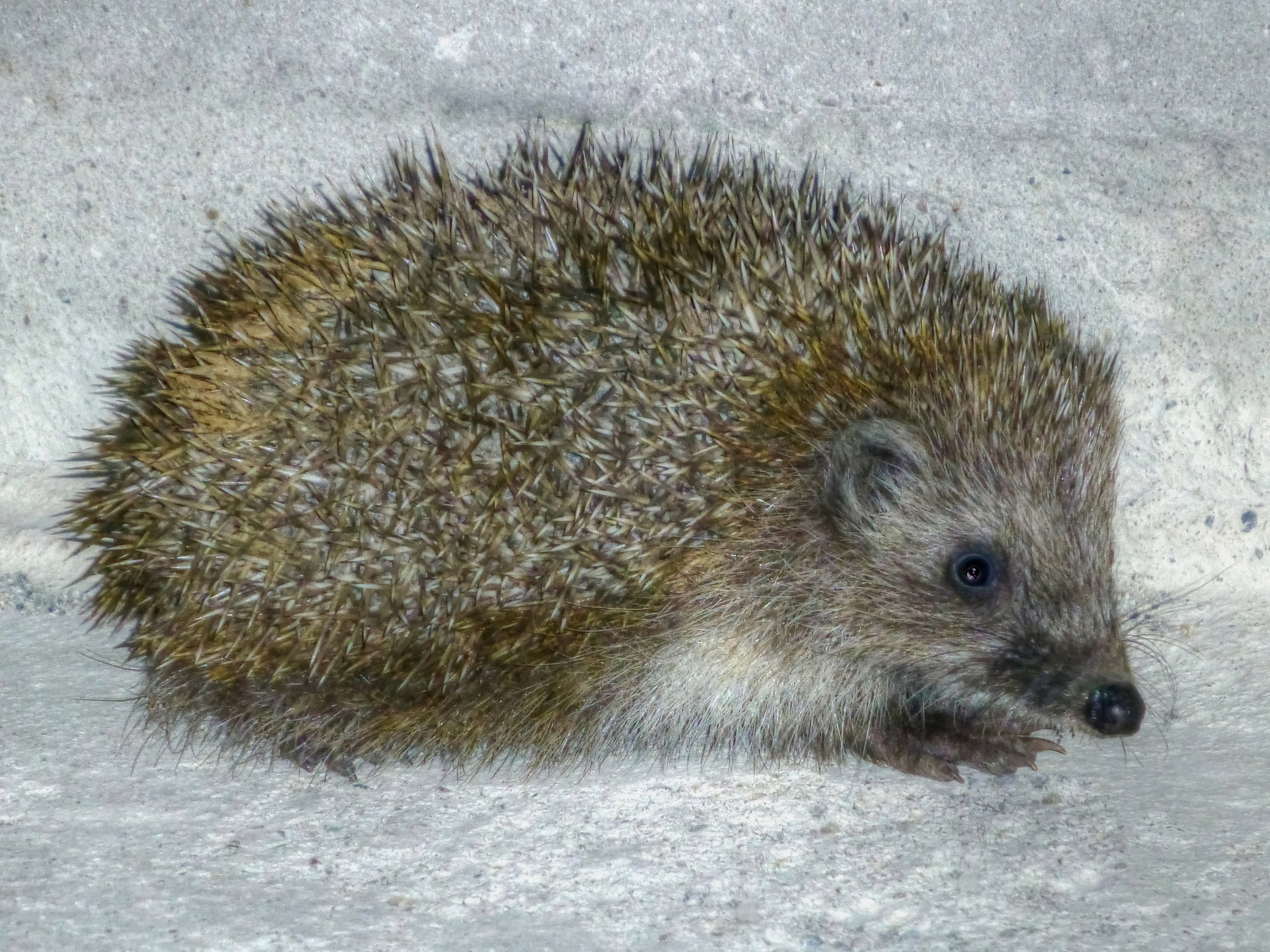 Southern White-breasted Hedgehog, Erinaceus concolor